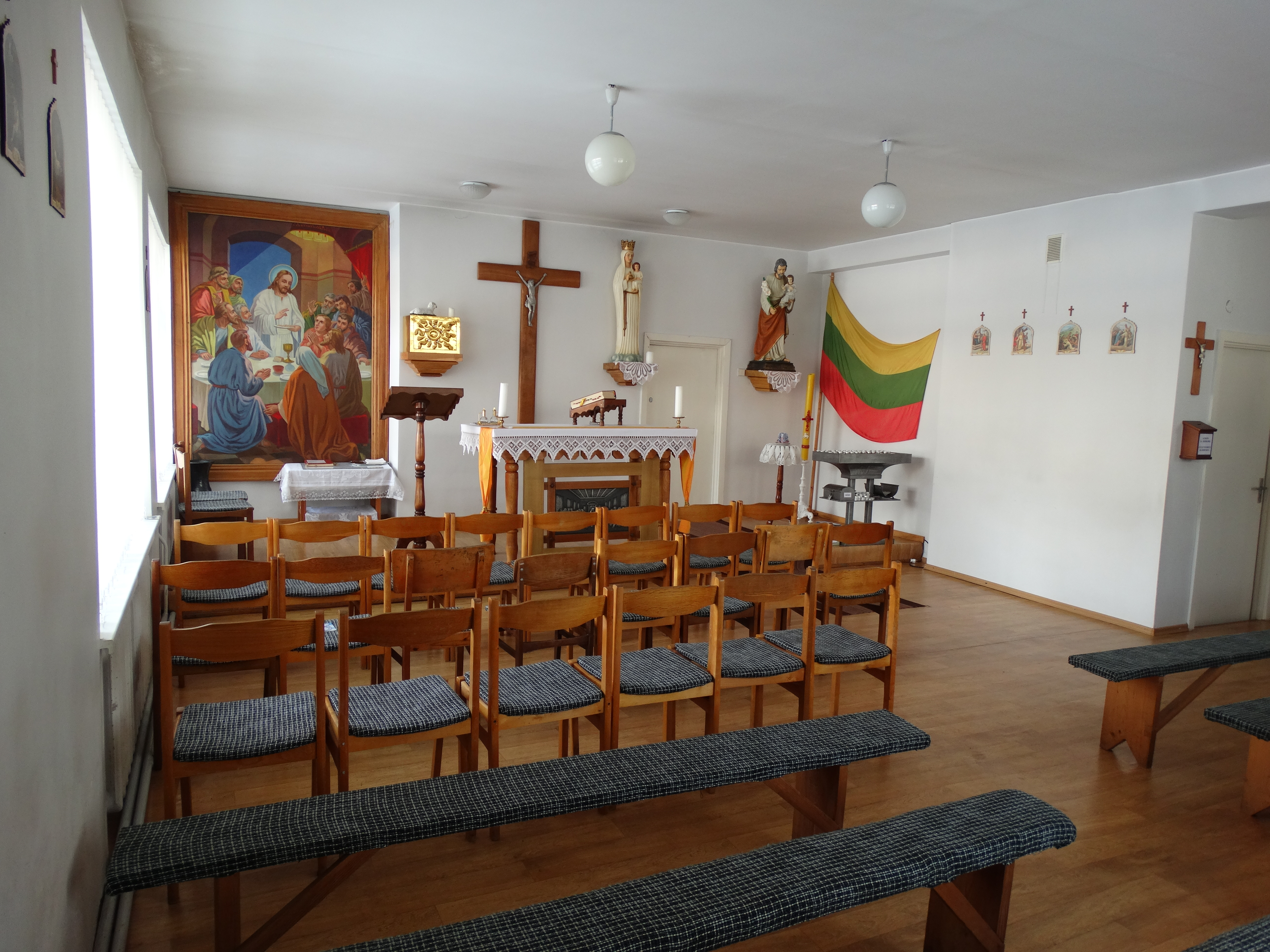 Catholic chapel, Rusnė, Šilutė district, Lithuania